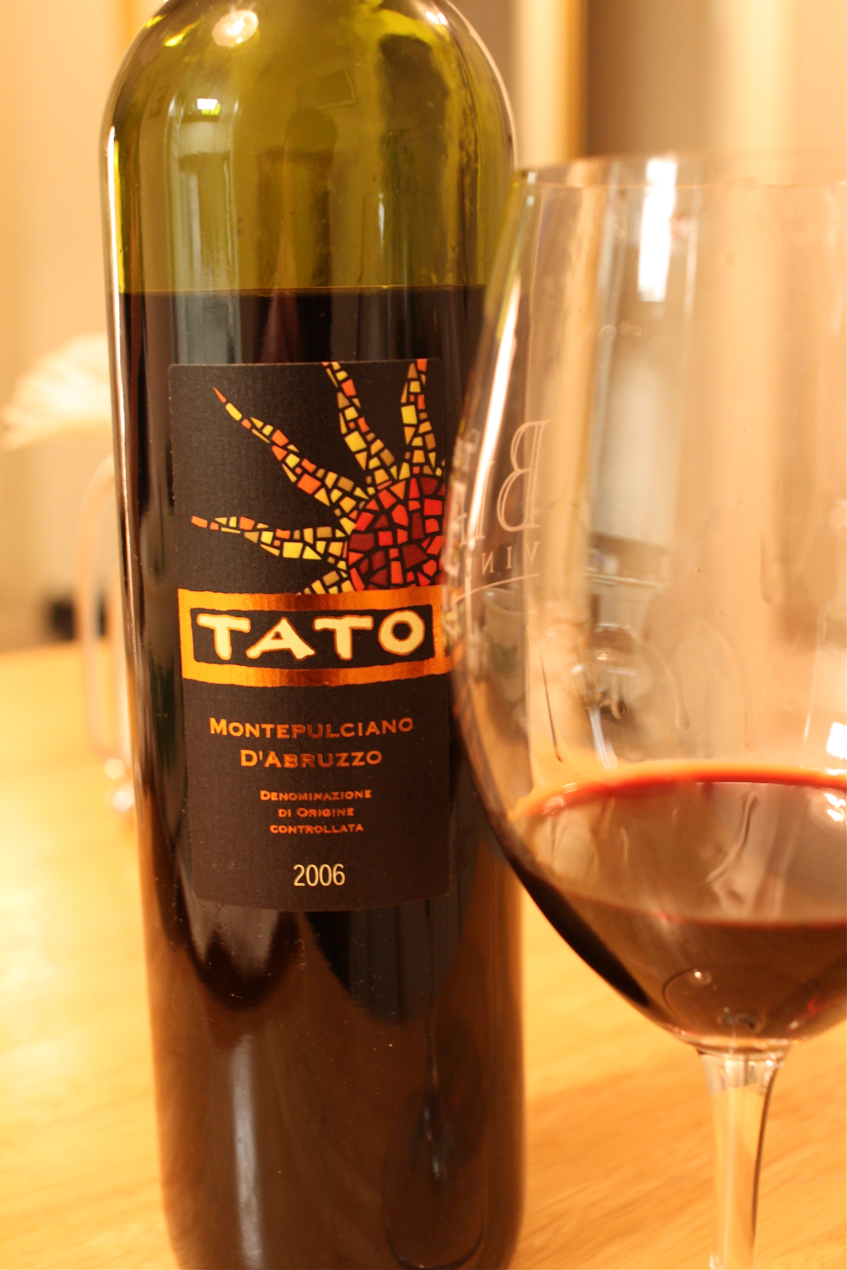 An example of the Italian DOC wine Montepulciano D'Abruzzo made from the Montepulciano grape in the Abruzzi region of Central Italy.